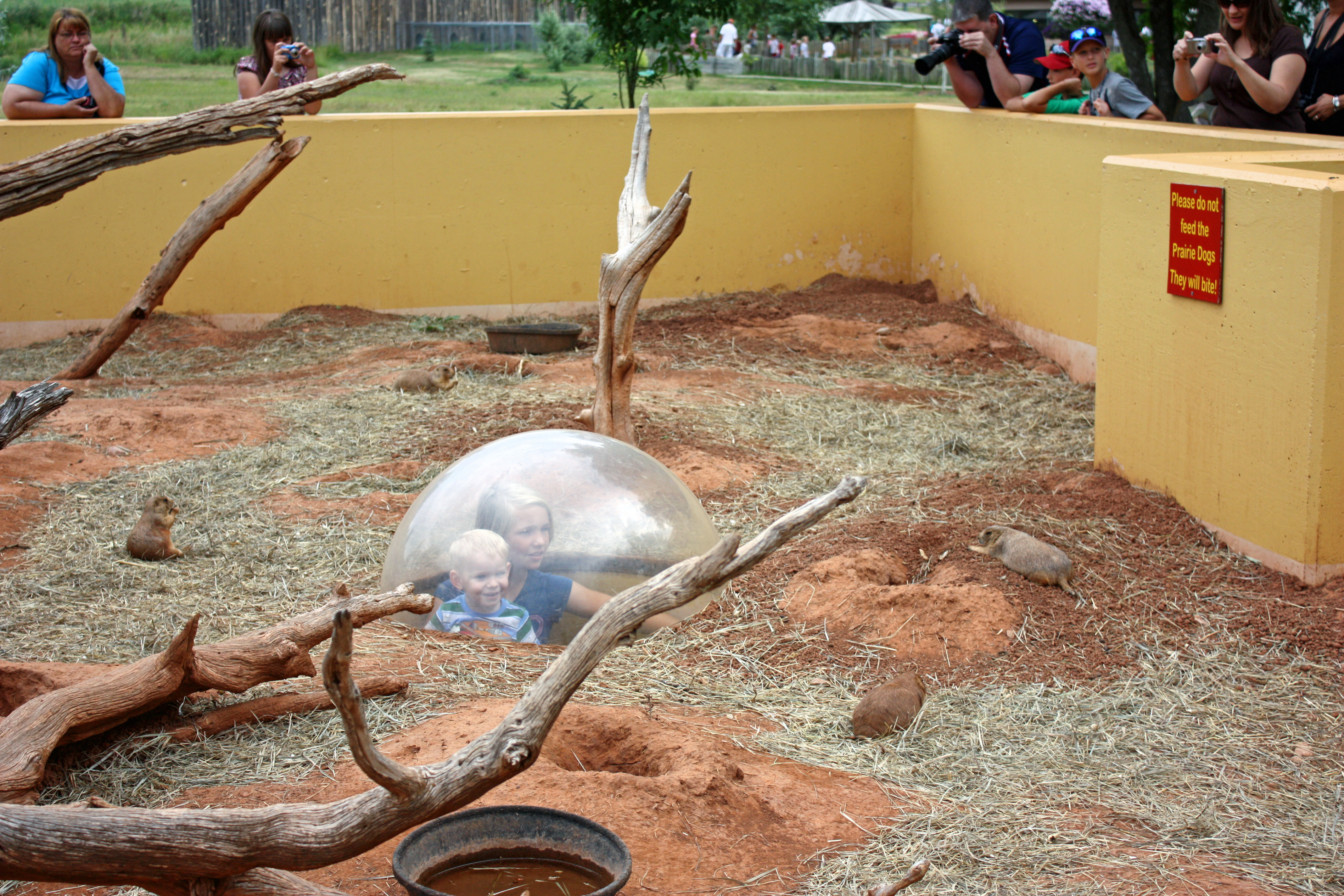 Prairie Dog Exhibit at Reptile Gardens, South Dakota